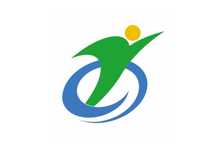 Flag of Aisho Shiga